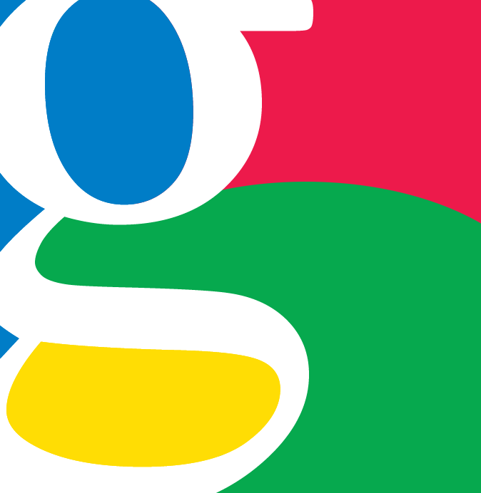 Cropped letter "g" in Times New Roman over a mostly green background, left side blue, the "g" bottom hole painted yellow, red top-right square with a concave crop. Very similar to Google favicon, but the font is not the same.